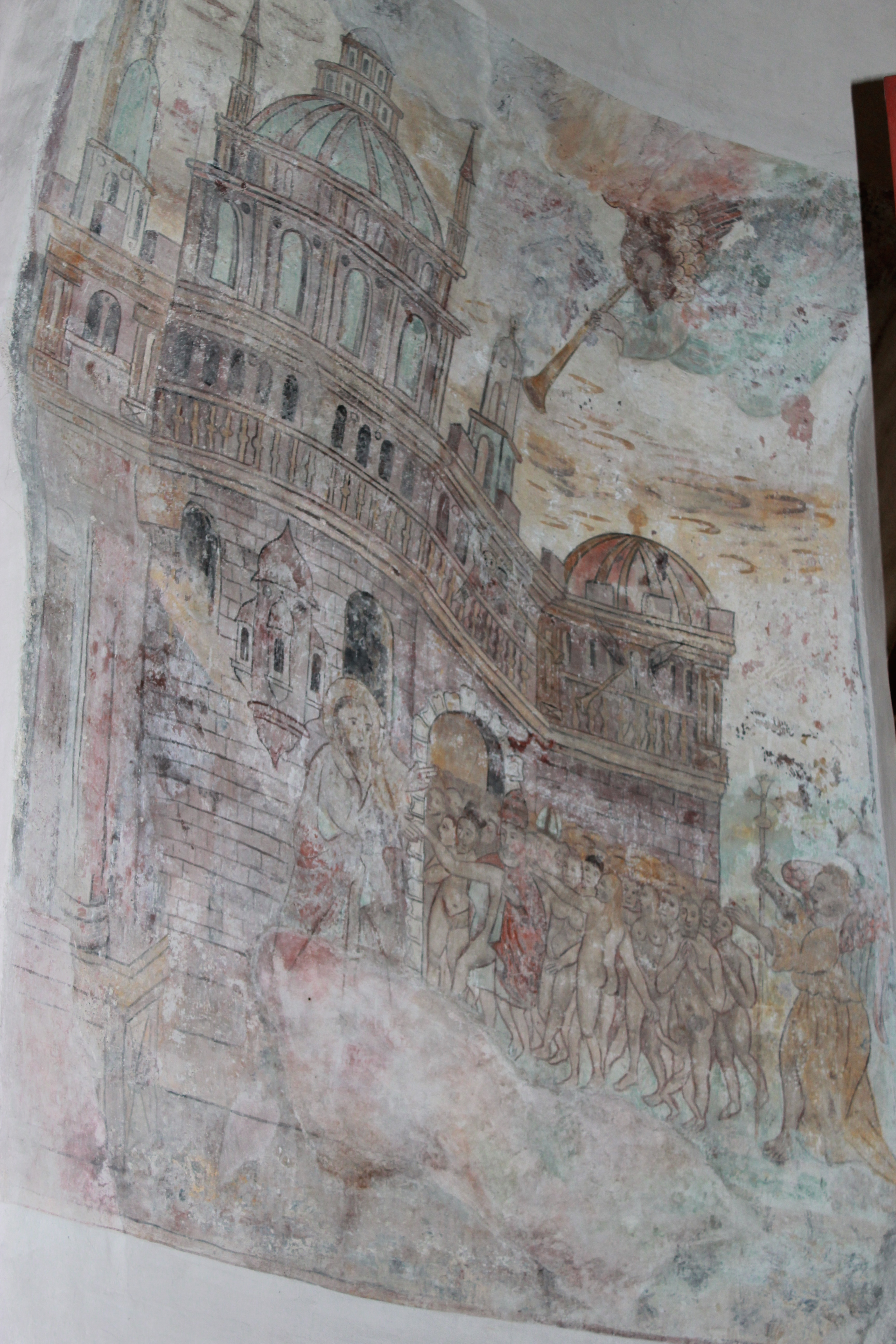 Parish church Irschen - Last judgement